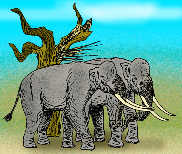 My reconstruction of the Pliocene elephant, Palaeoloxodon recki, of Africa.